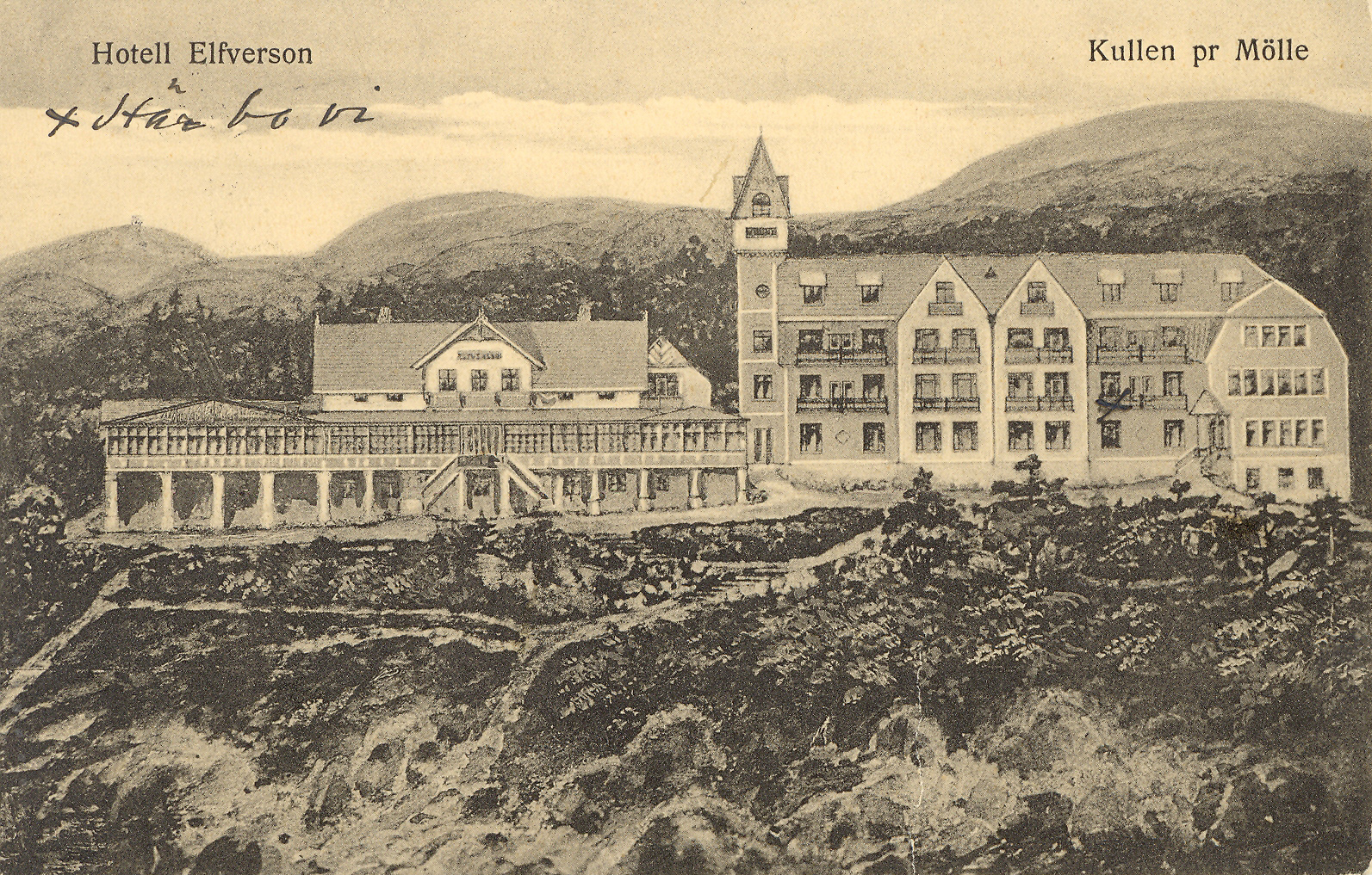 Hotel Elfverson, Mölle, Sweden, 1913